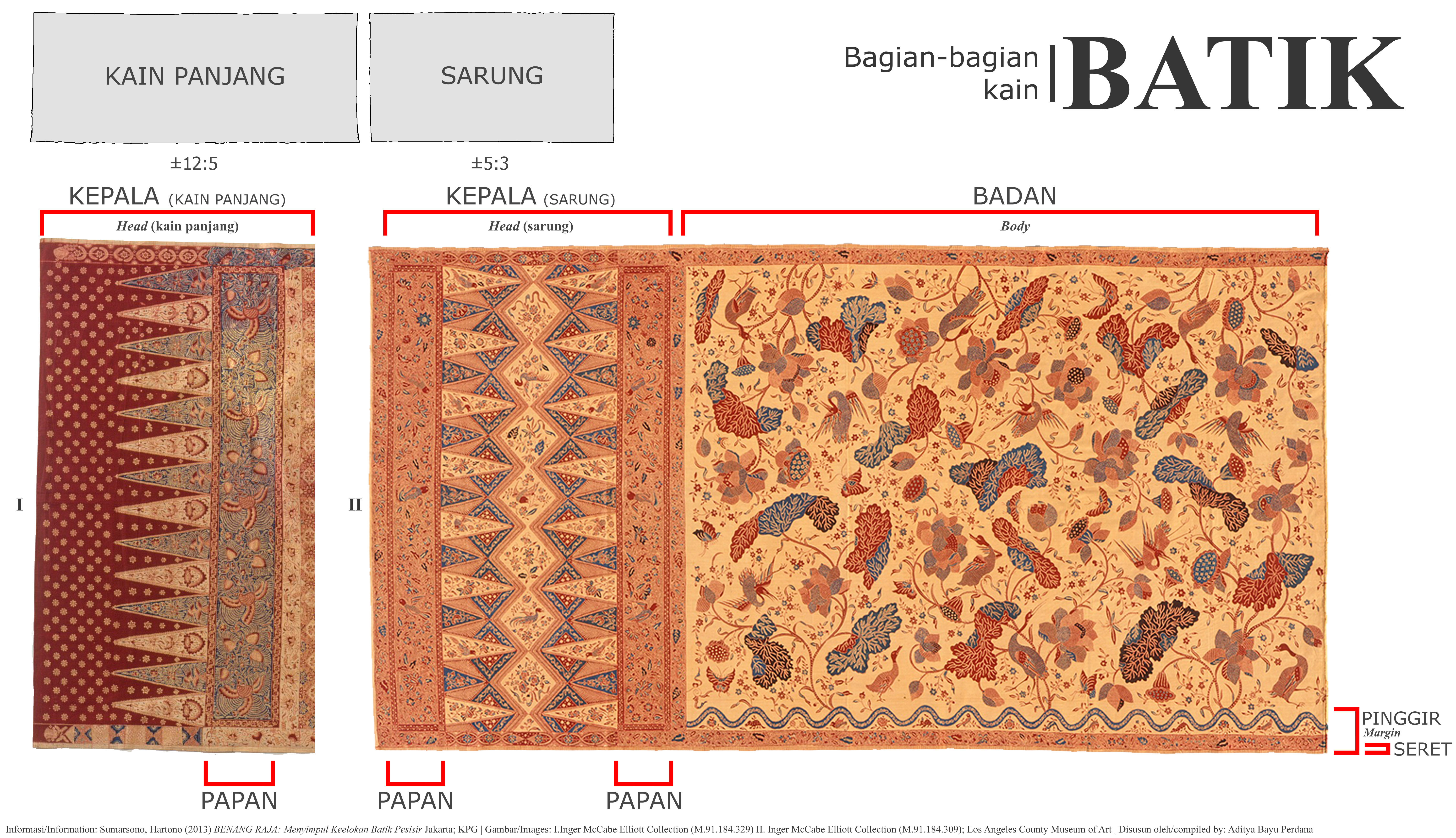 Terminology in batik cloth